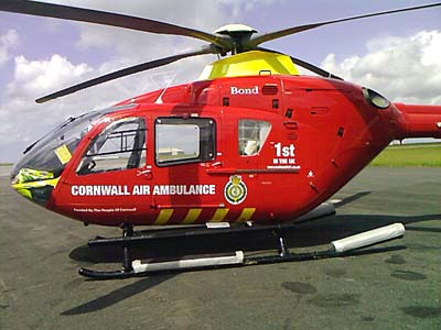 me